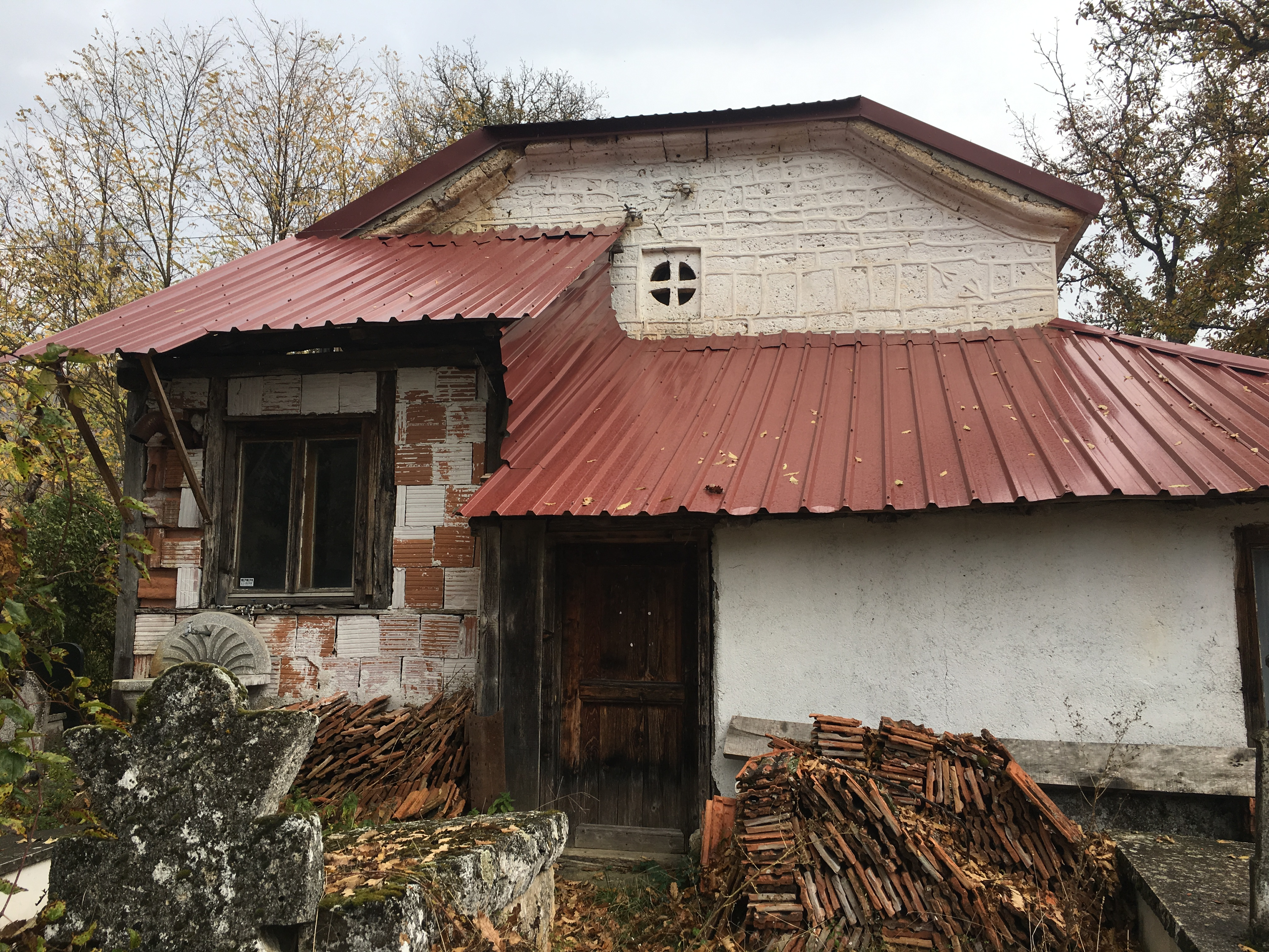 Wikiexpedition to Kopačka